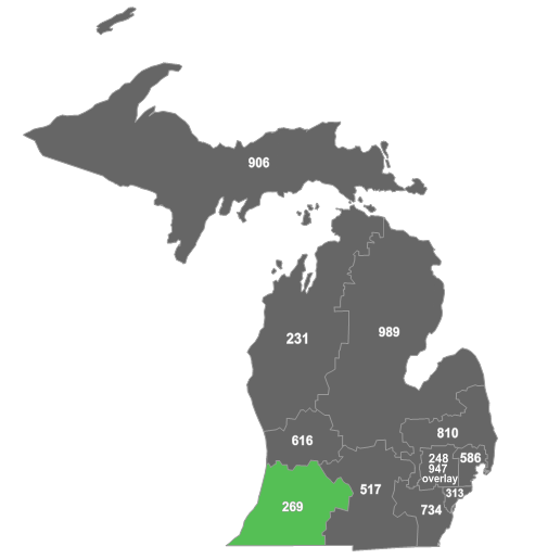 Area code map of Michigan highlighting the region covered by area code 269.